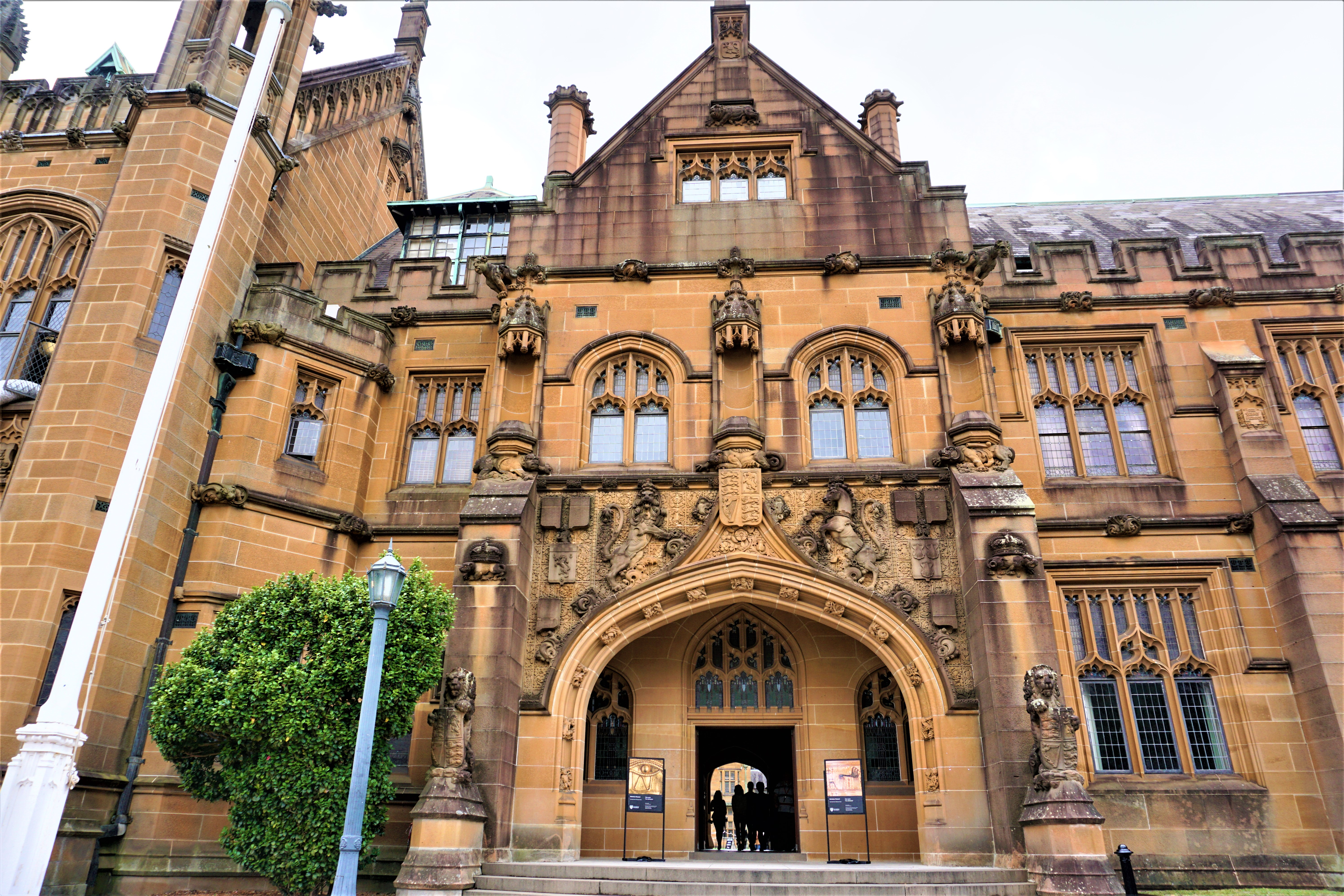 Nicholson Museum - Joy of Museum - - for details